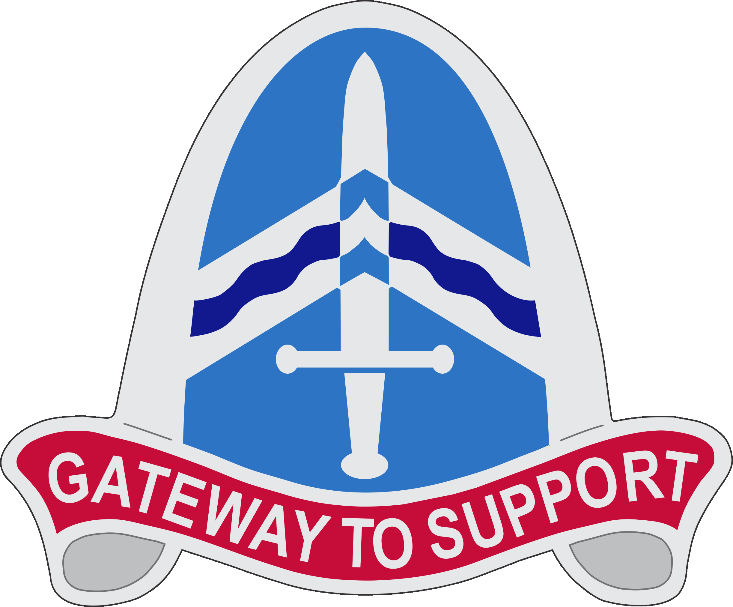 United States Army Military Intelligence Readiness Command, 648th Regional Support Group distinctive unit insignia